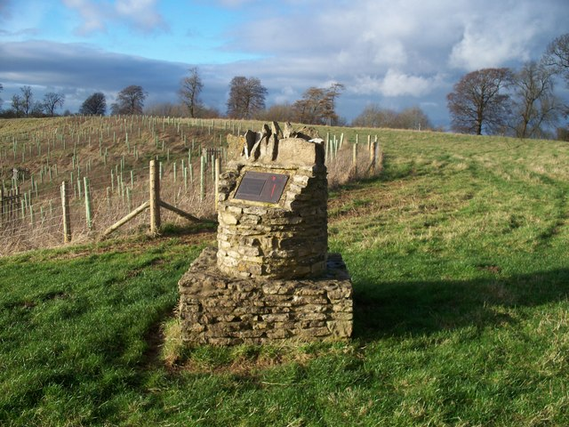 Battle of Stow This interpretive viewpoint is situated very close to the top of the hill and adjacent to the footpath to Donnington. The Battle of Stow fought on 21st March, 1646 was the last major battle of the First Civil War.